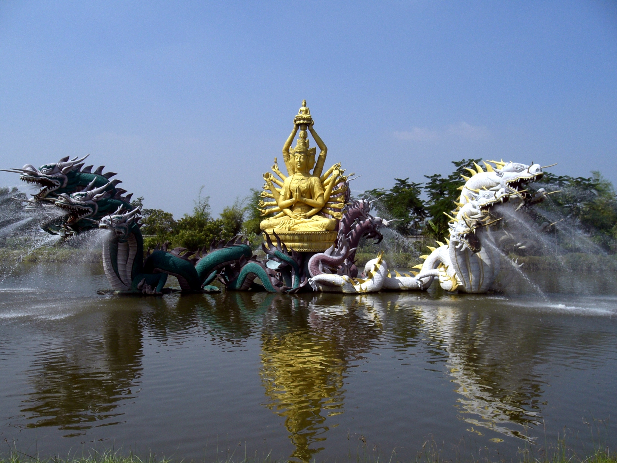 Statue of "Bodhisattva Avalokitesvara (Kuan-Yin) Performing a Miracle". in: Mueang Boran ("Ancient City"), Samut Prakan, central Thailand